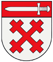 coat of arms of the city of Lielvārde (Latvia)